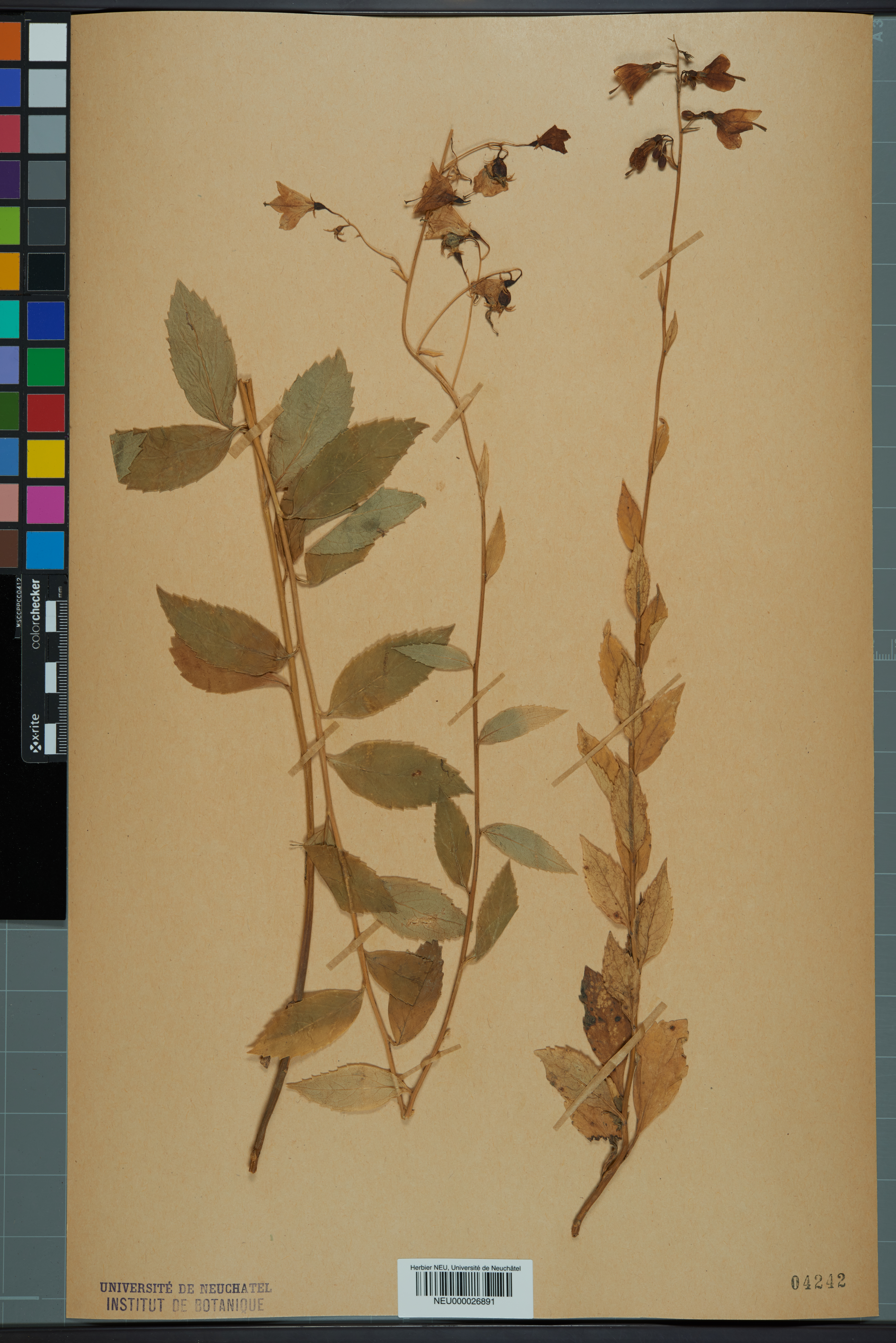 Dried pressed specimen of Adenophora liliifolia